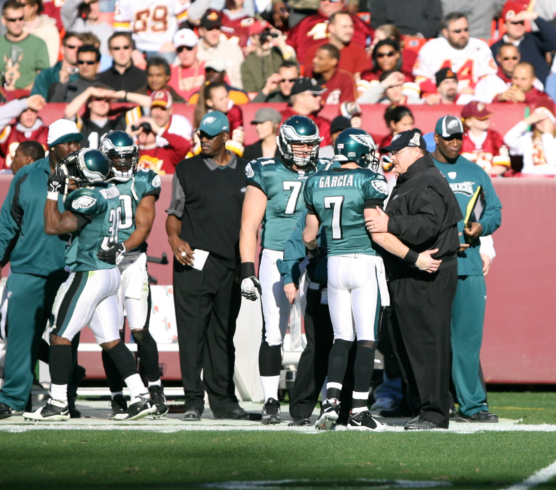 Head Coach Andy Reid and Quarterback Jeff Garcia of the Philadelphia Eagles in a game against the Redskins